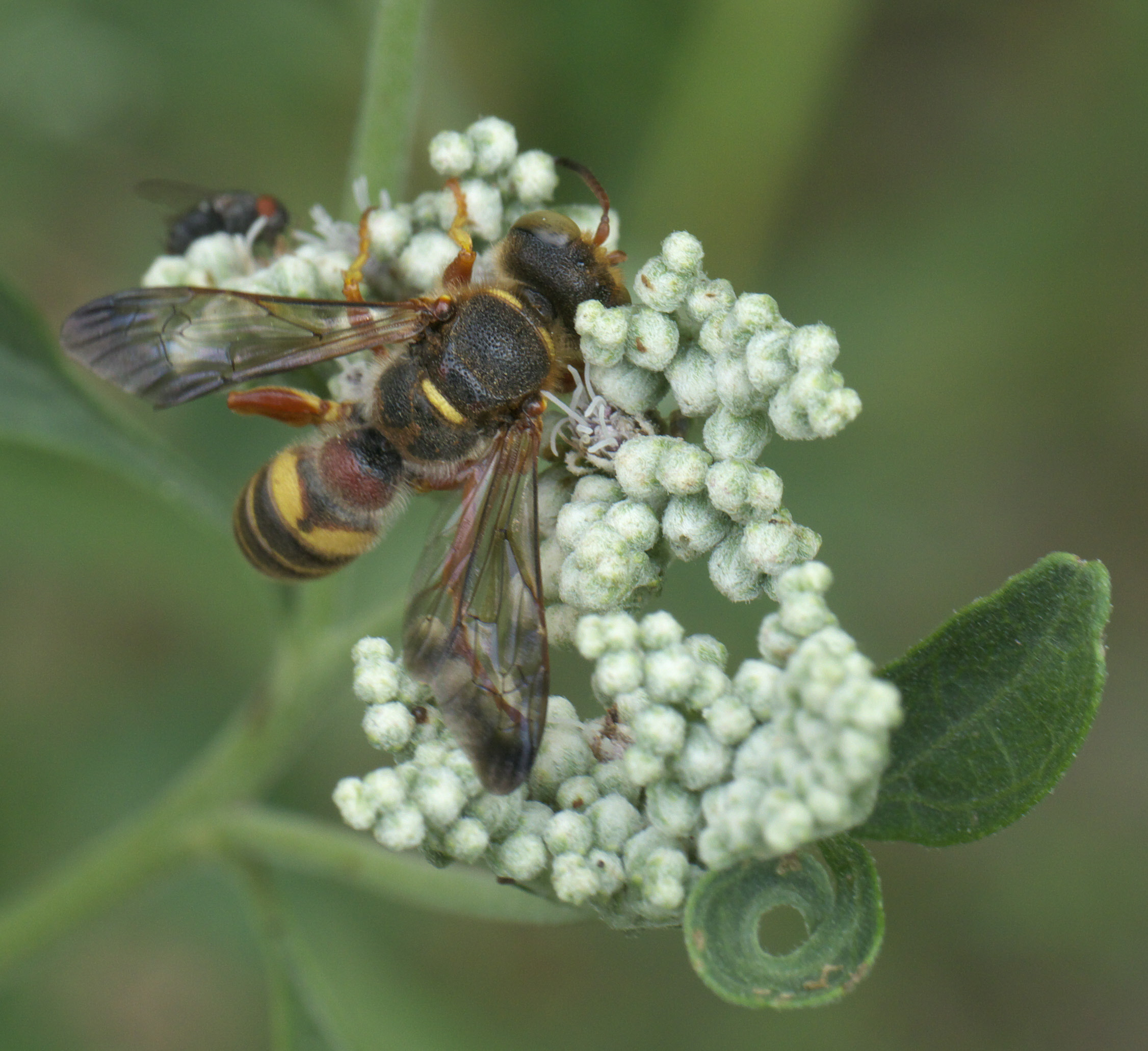 Cerceris bicornuta, Order: Ants, Bees, Wasps and Sawflies, ID Confidence: 98